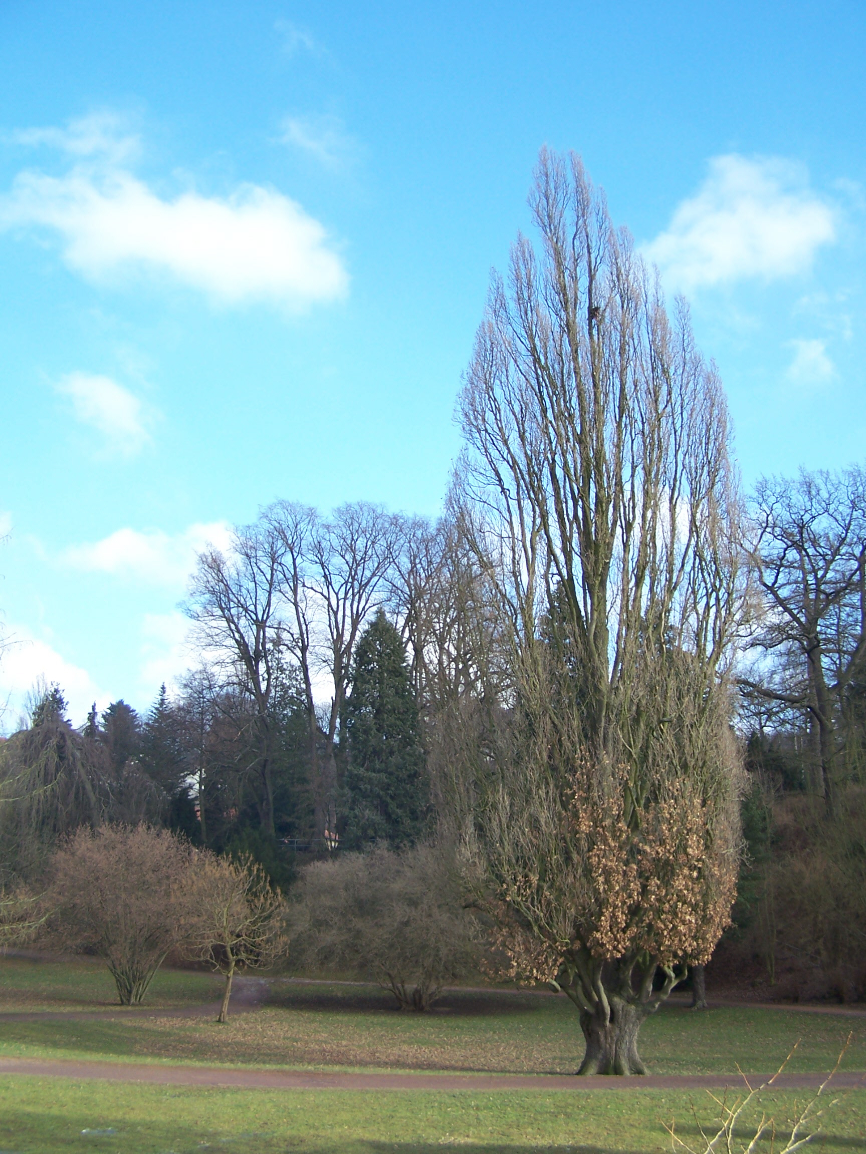 The southern part of the Kartausgarten park.